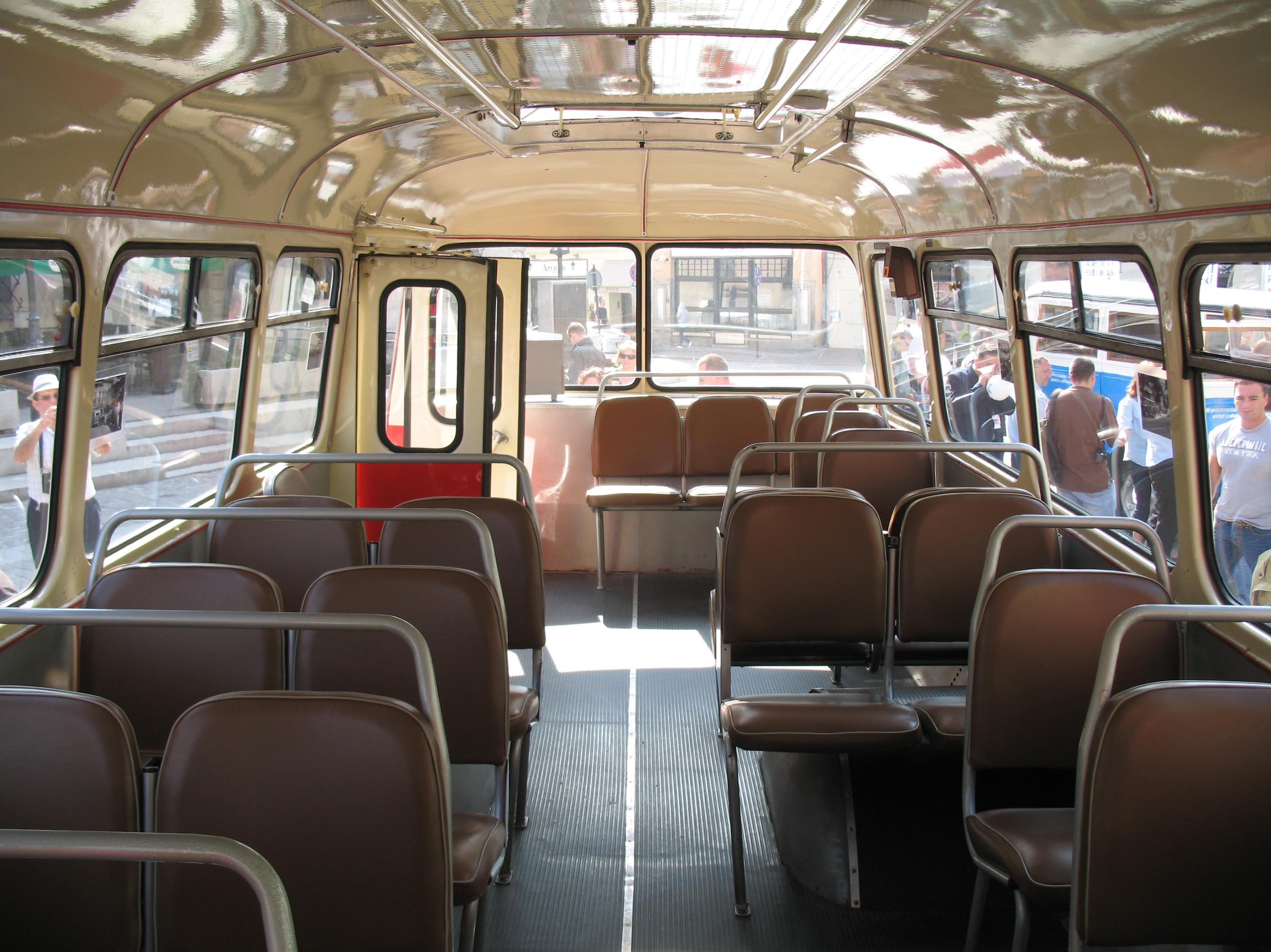 Jelcz 272 MEX bus (#341) in Kraków, Poland. Built 1971 (Jelcz 043), rebuilt 2002, MPK Kraków operator.